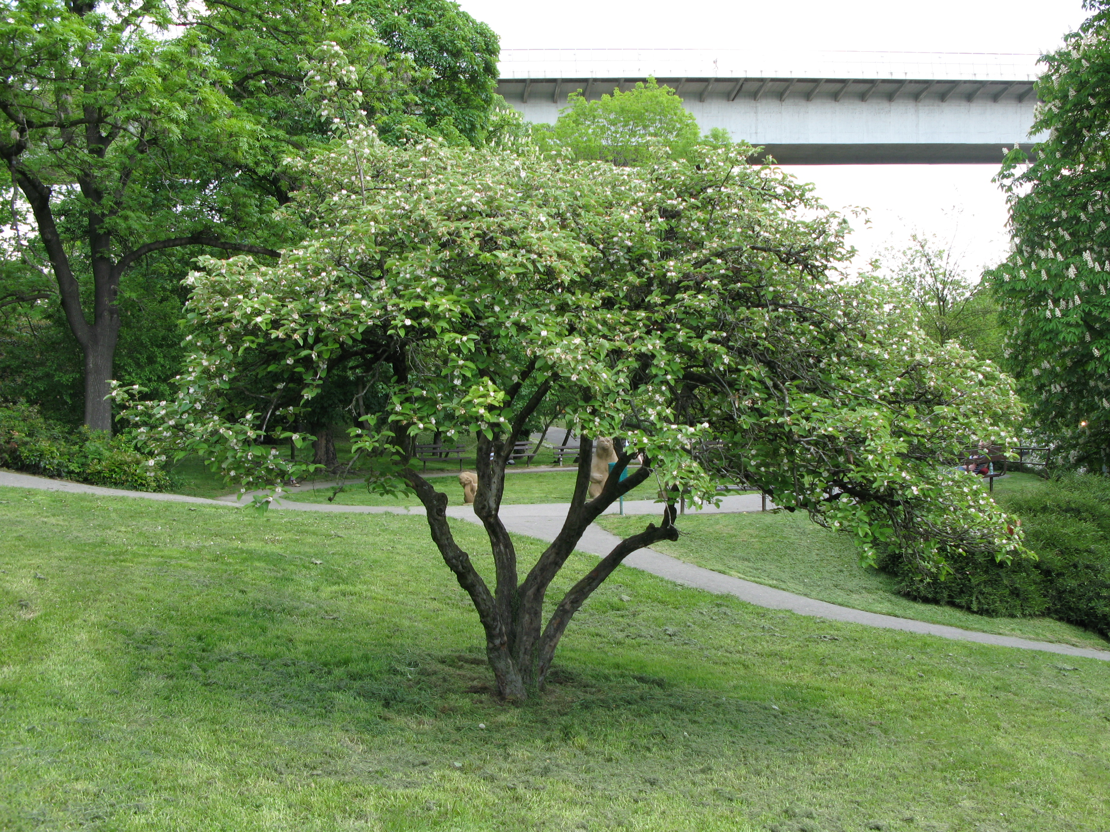 Flowering Stuartia sp., for identification in Bloom Clock at